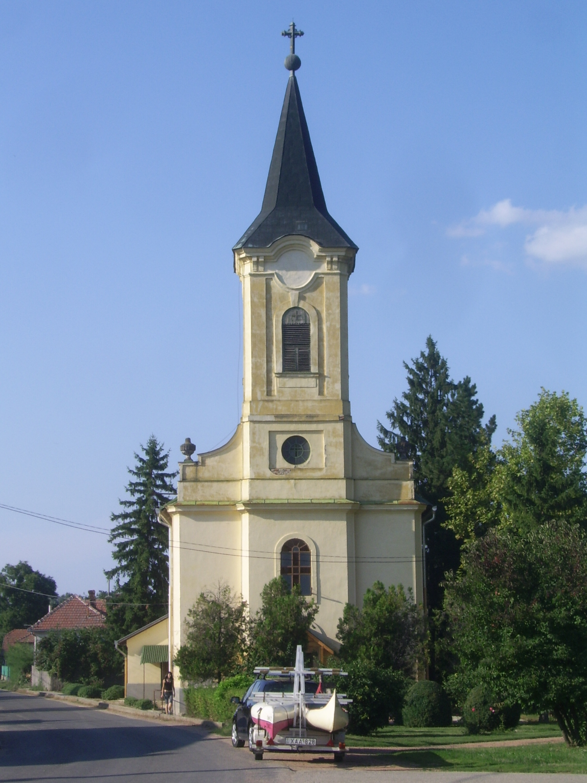 Roman catholic church in Kőtelek